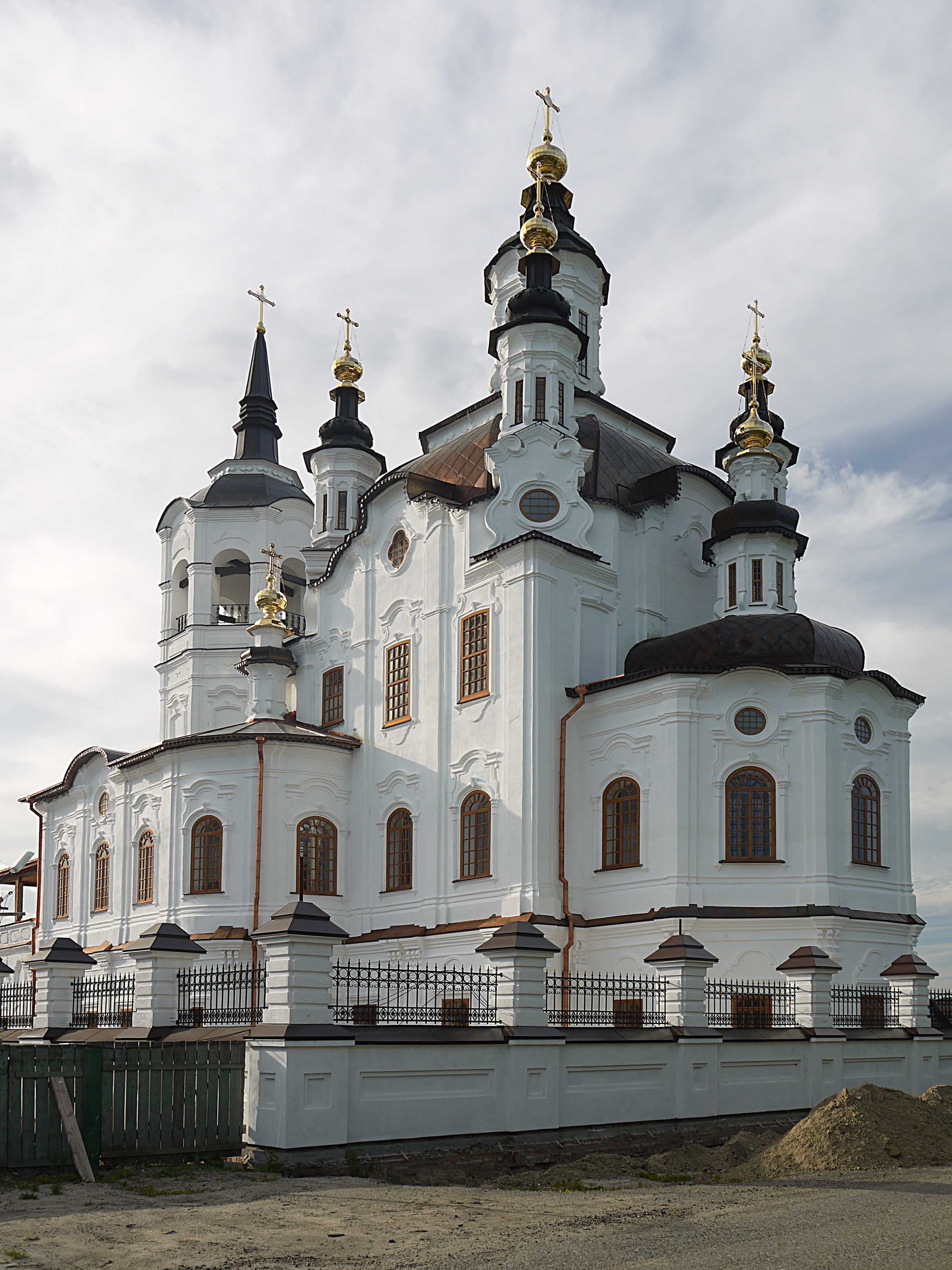 Zachary and Elizabeth Church.